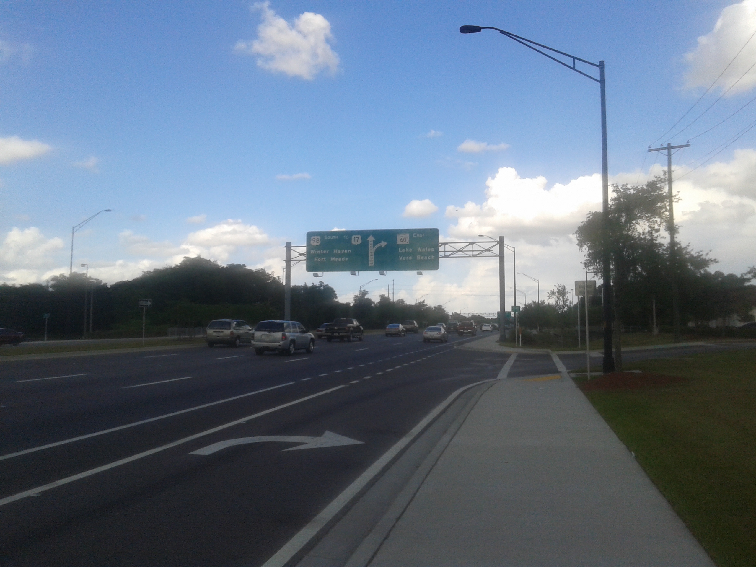 Concurrent westbound Florida State Road 60 and northbound US Route 98 in Bartow, approaching the intersection where the routes split and US 98 goes north and SR60 goes west (Broadway to downtown Bartow goes south).